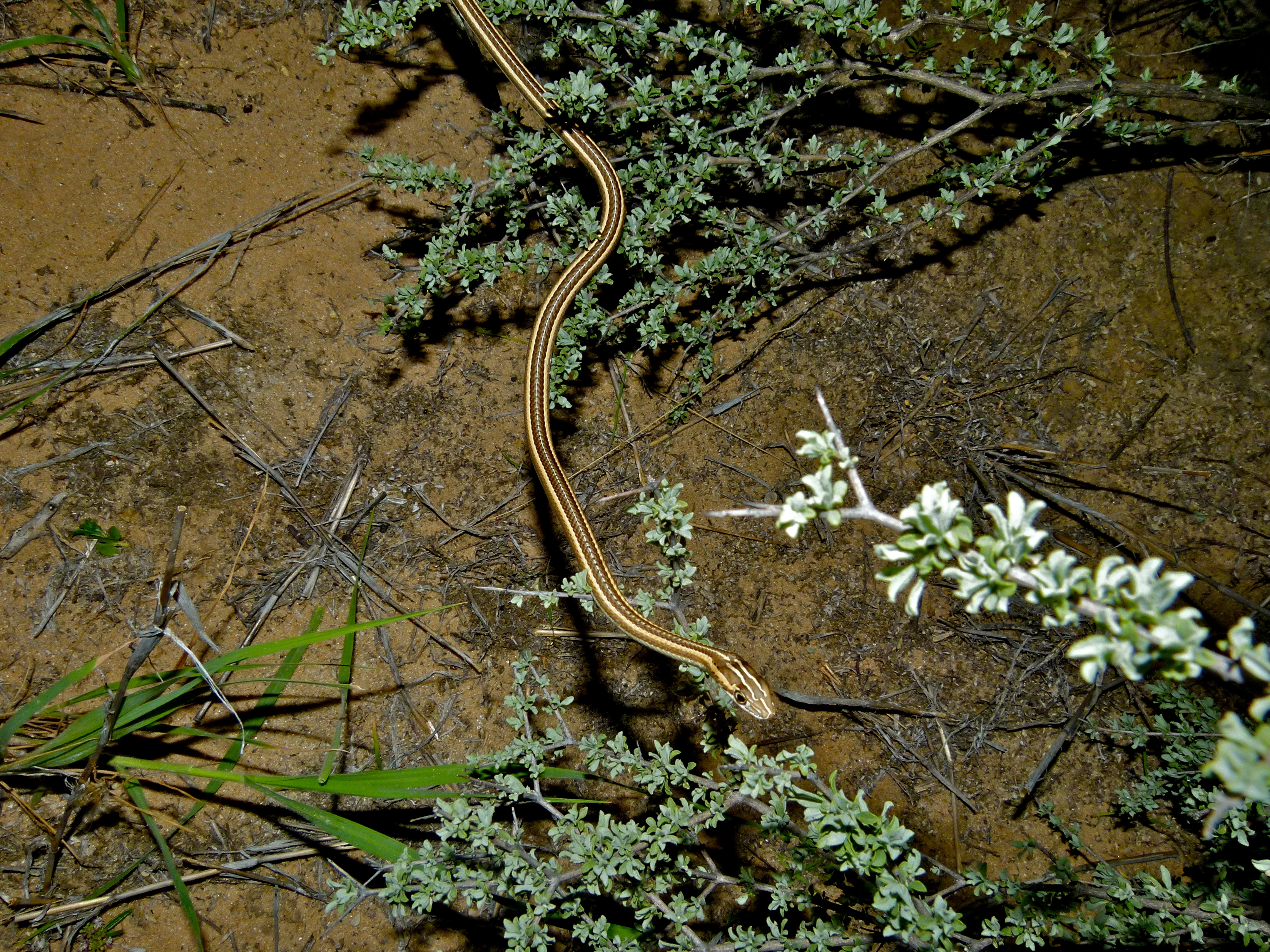 Nossob Camp, Kgalagadi Transfrontier Park, SOUTH AFRICA